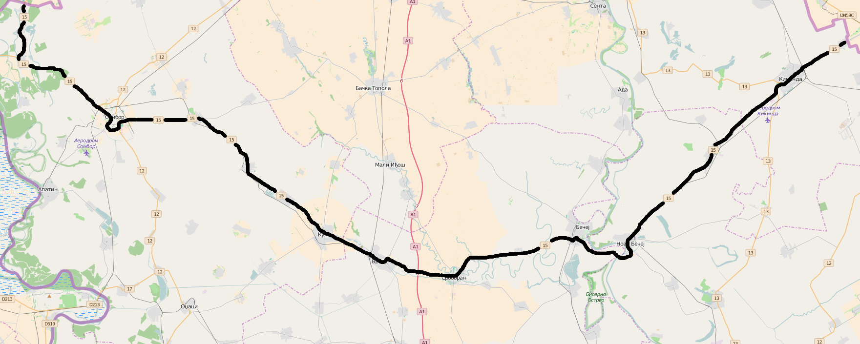 This map of State Road 15 in Serbia was created from OpenStreetMap project data, collected by the community. This map may be incomplete, and may contain errors. Don't rely solely on it for navigation.